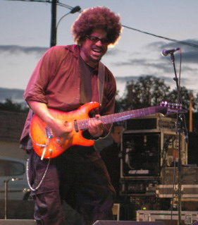 Rocky George, Performing with Fishbone at Les Riffs du Caylar, August 7, 2005, in France